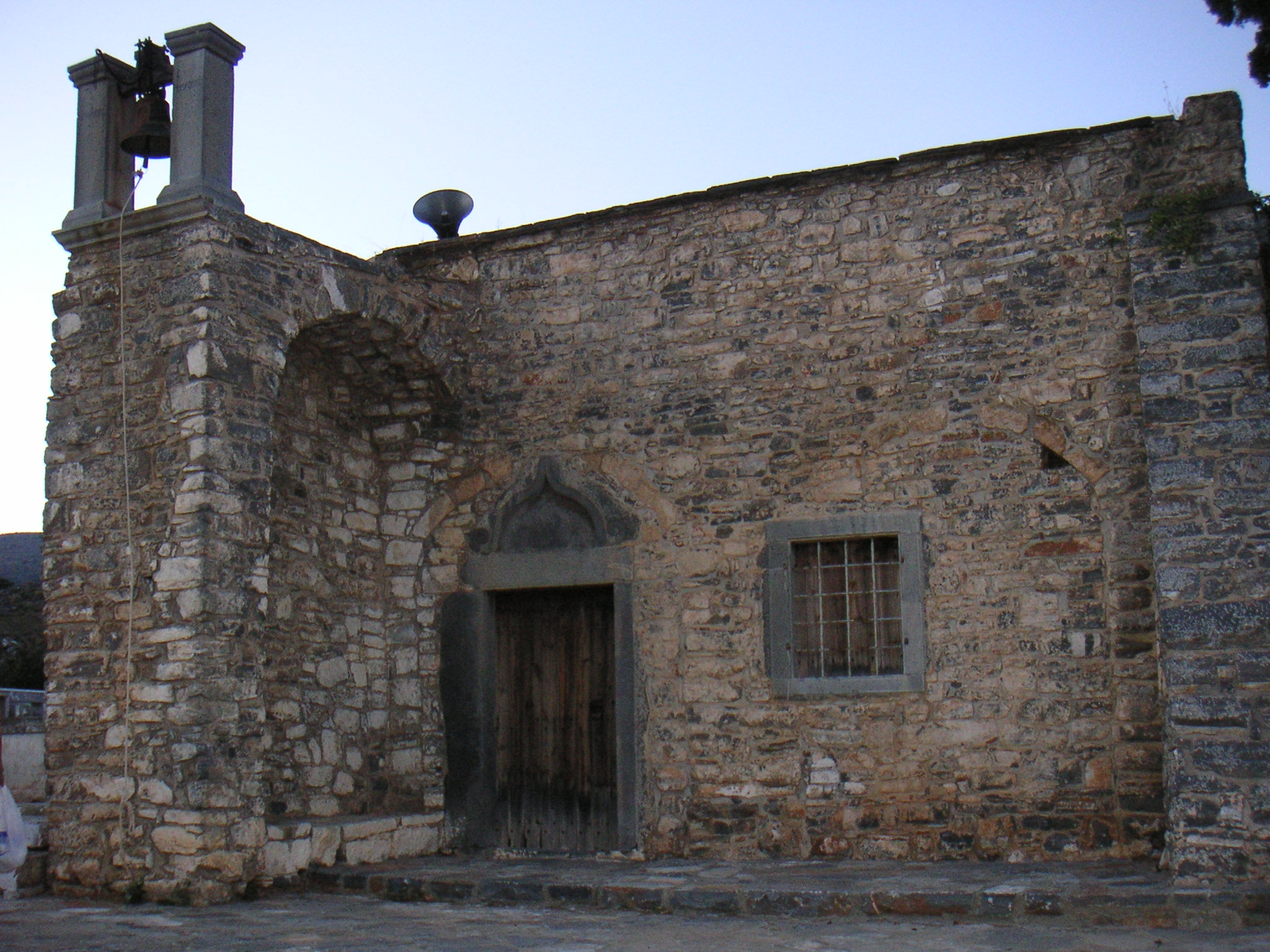 Photo of the graveyard church in the town of Neapoli, Crete, Greece